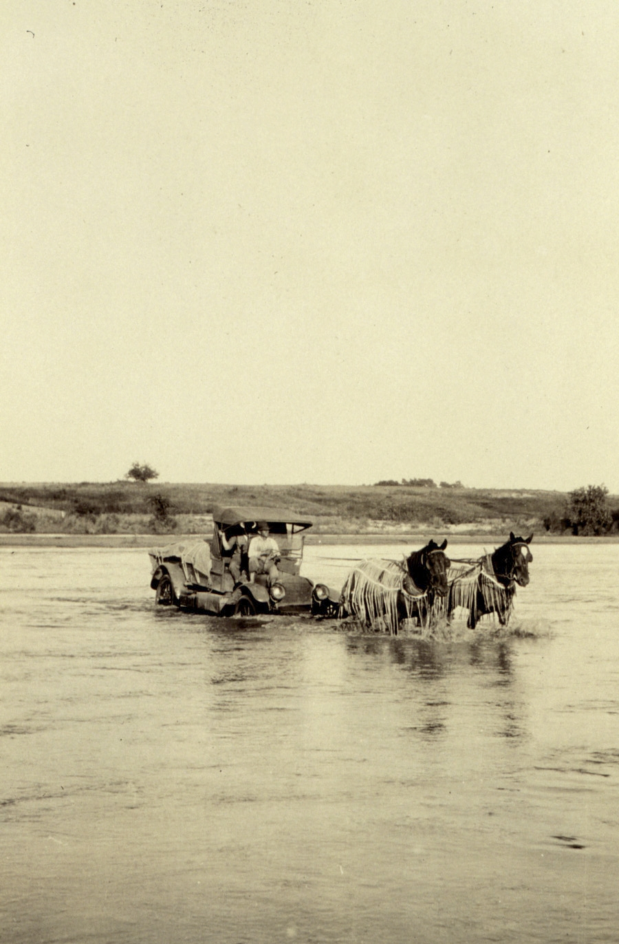 Two kinds of horsepower. Crossing the Red River near Granite, Oklahoma. Triangulation party of E. O. Heaton. Near Granite, Oklahoma.